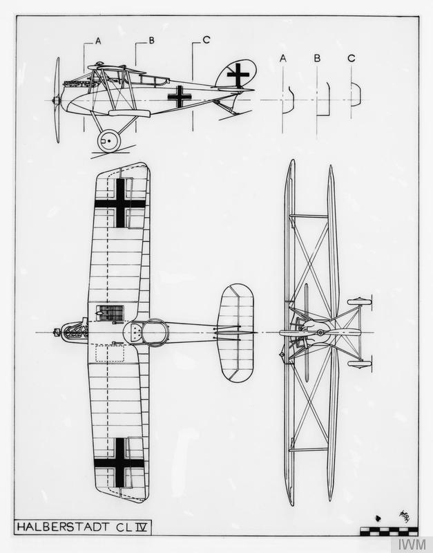 Technical Drawings of the First World War Aircraft General arrangement drawing of Halberstadt CL IV.